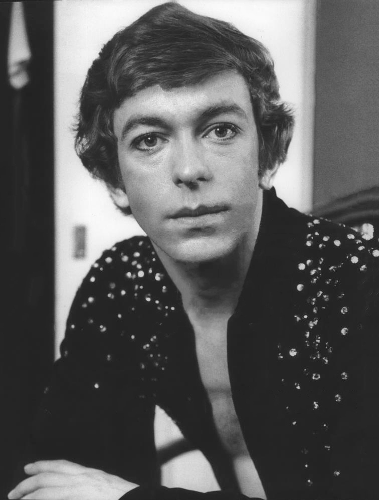 1977 Press Photo Toller Cranston in Toller Cranston's The Ice Show, on Broadway.